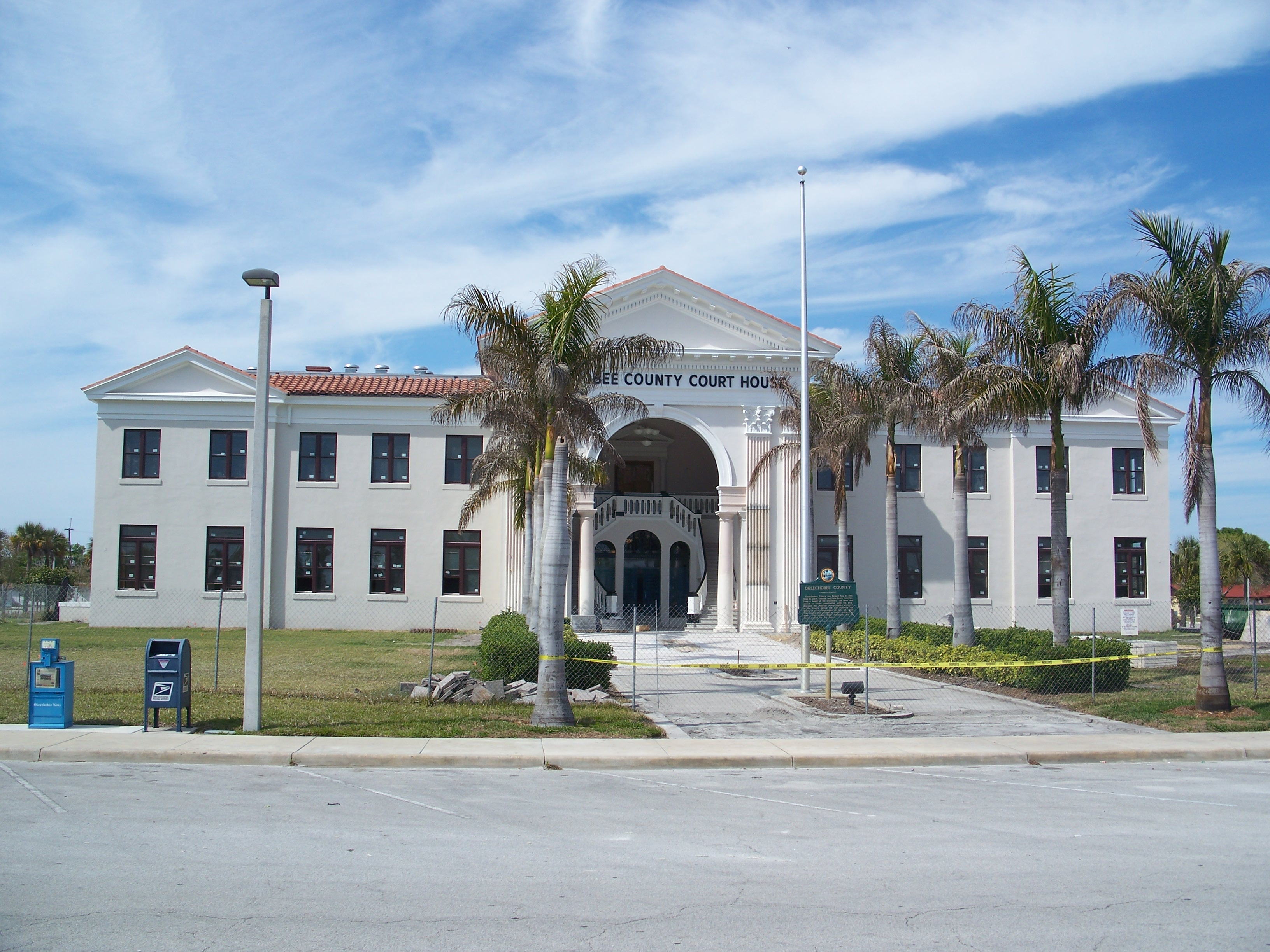 Okeechobee, Florida: County courthouse, listed in A Guide to Florida's Historic Architecture.